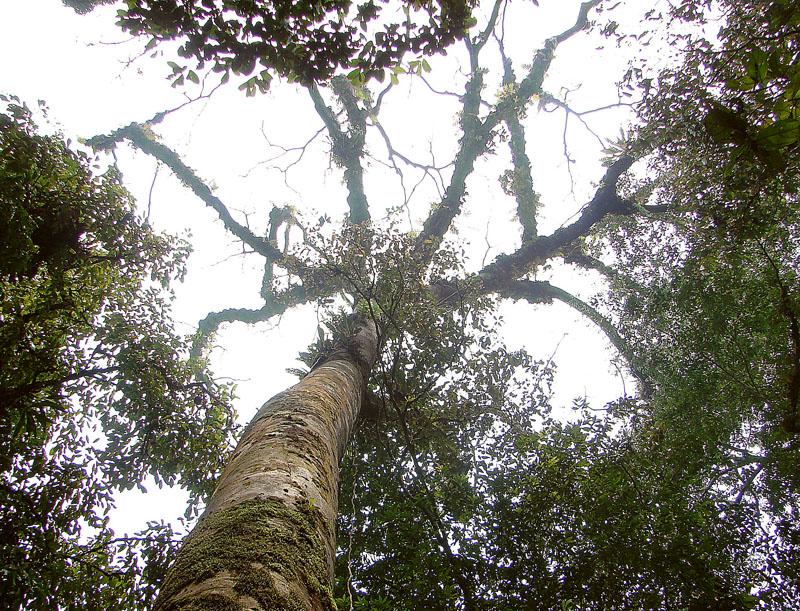 A large tree known as Tampur Hanta in southern Sarawak, Malaysian Borneo.